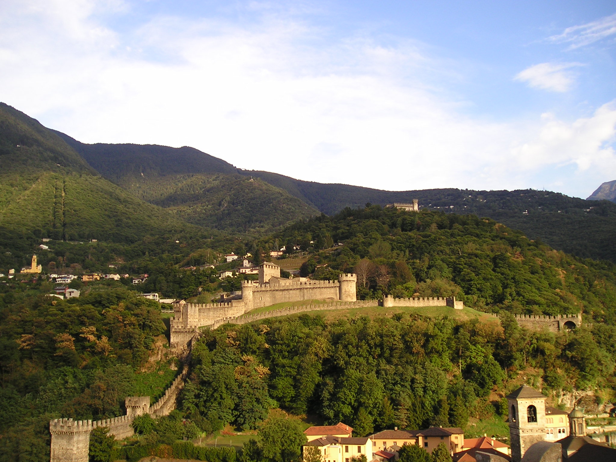 View of Montebello Castle, Bellinzona, Switzerland. The Corbaro castle can be seen in the background.